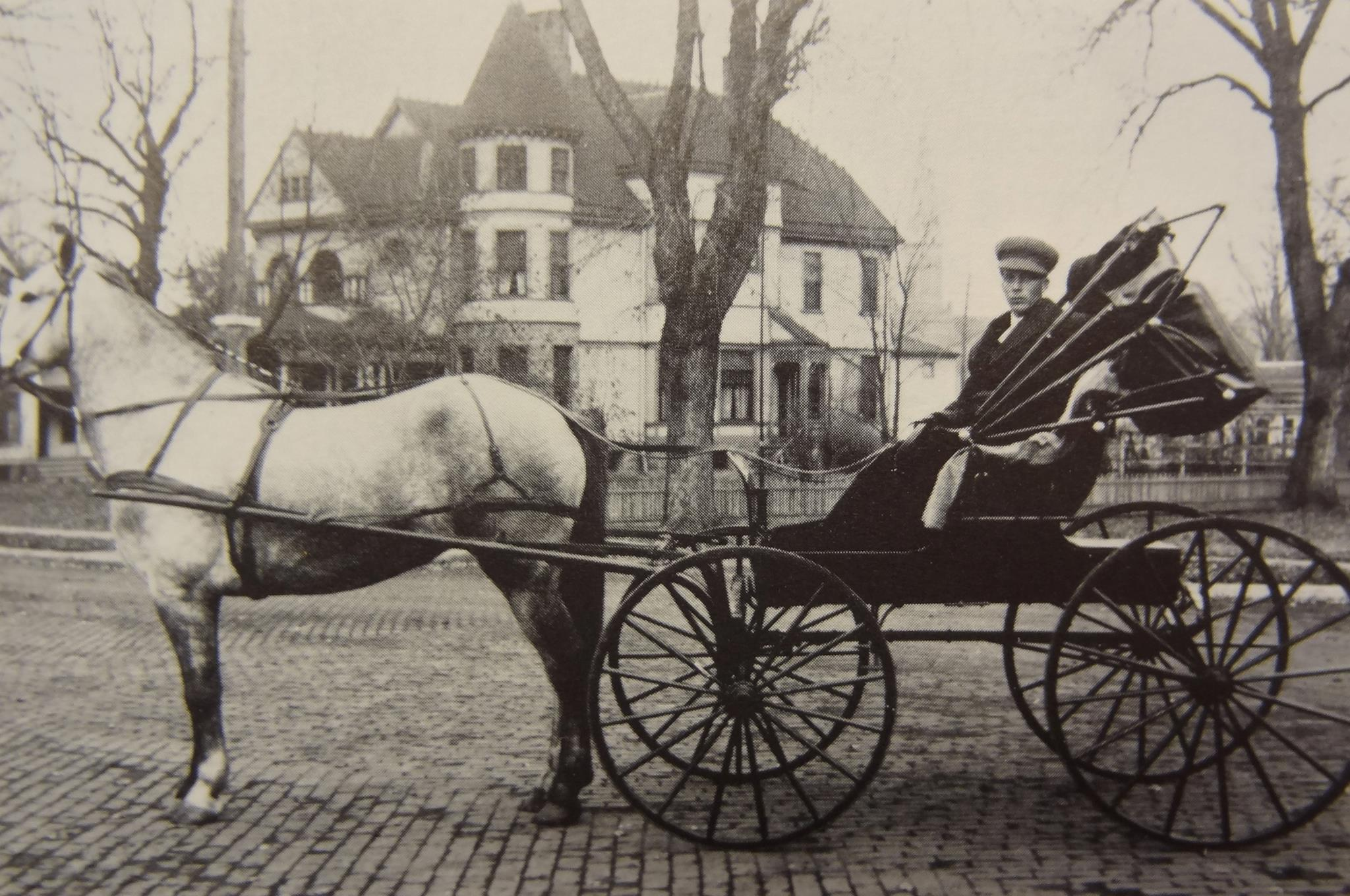 Geneseo, Illinois 1895 WC Sheppard Mansion. The lot was a known location of the underground railroad in the 1830s through 1860s